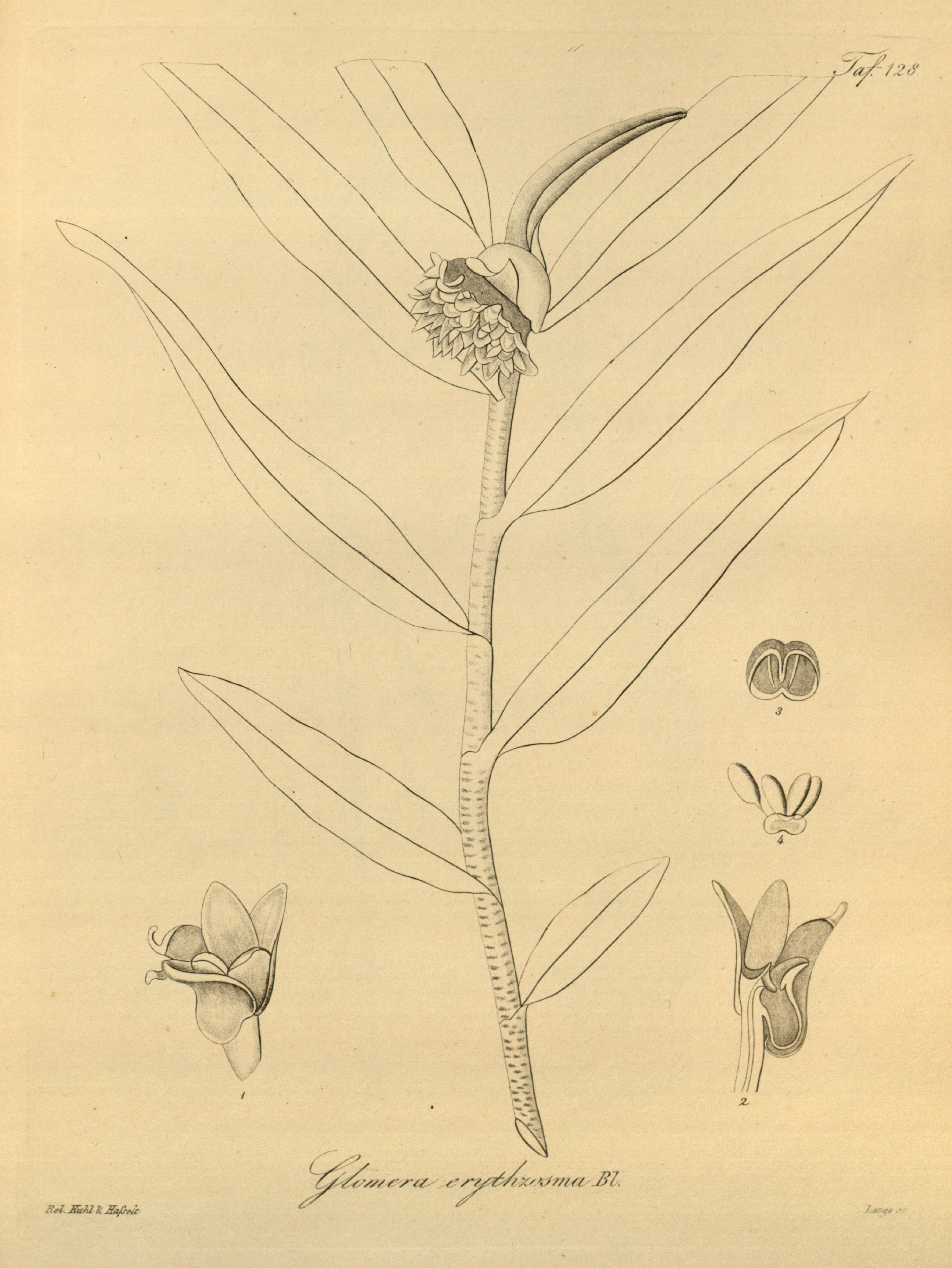 Illustration of Glomera erythrosma